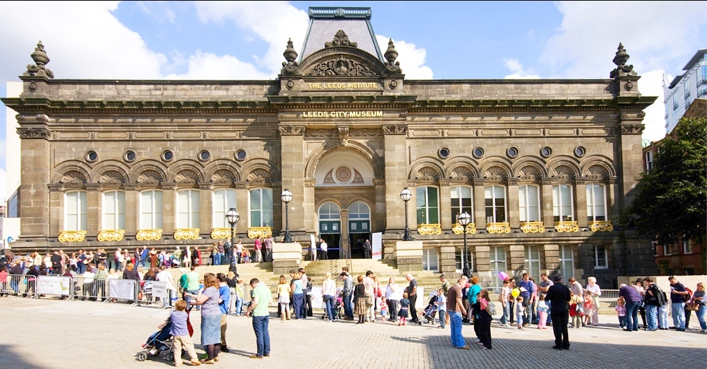 Leeds City Museum taken on opening day